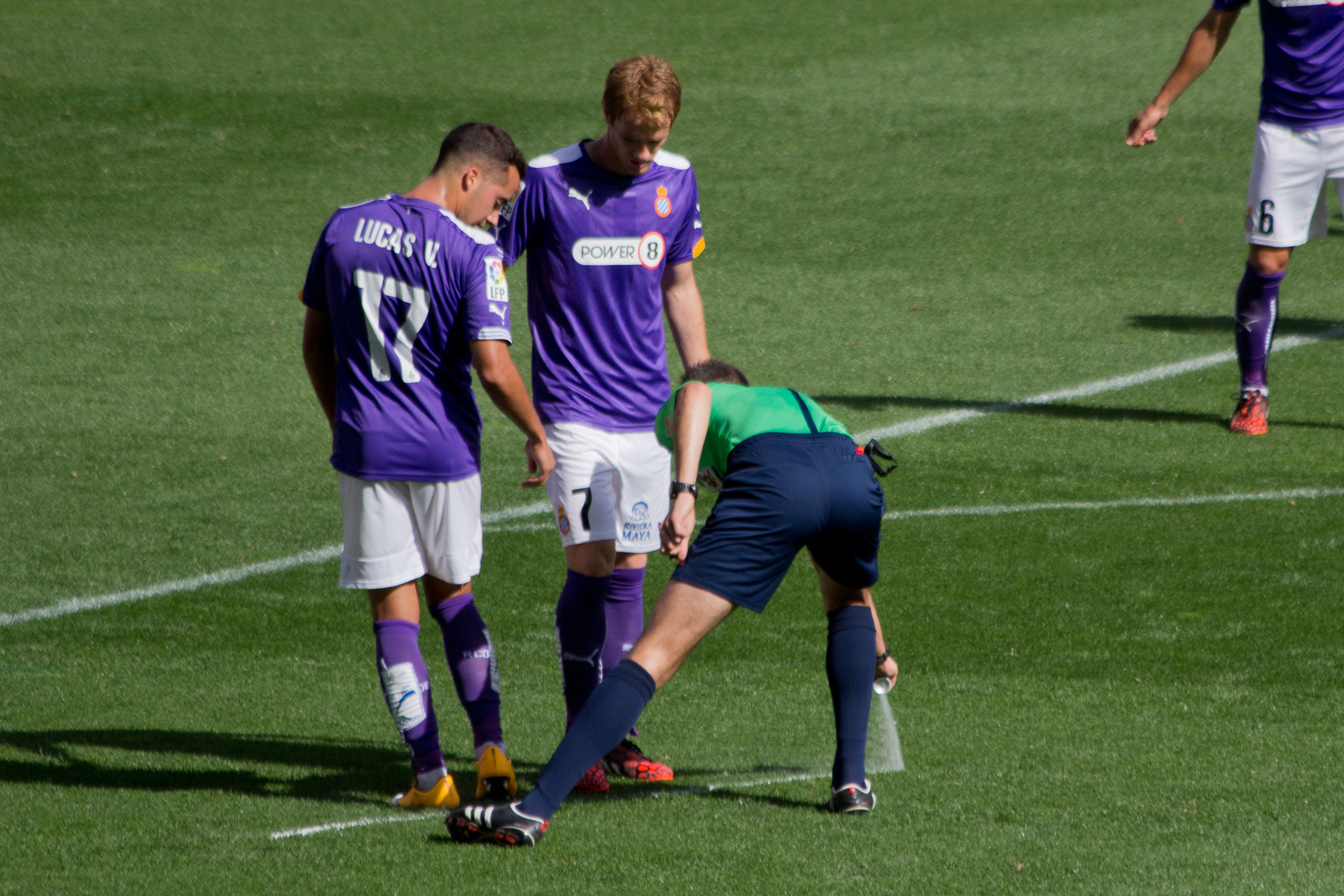 The referee uses a spray to set the distance for the wall before a free kick in association football.